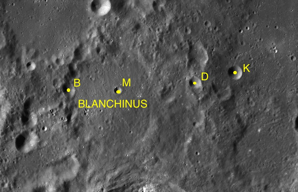 Part of the chart LAC-95 used for the presentation.